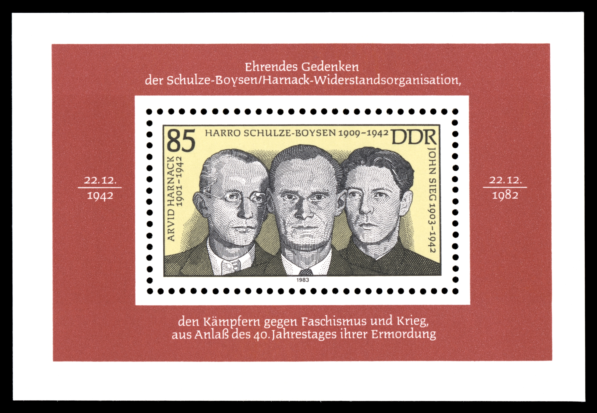 Ausgabepreis: 85 Pfennig First Day of Issue / Erstausgabetag: 22. März 1983 Auflage: 2.100.000 Entwurf: Stauf Druckverfahren: Offsetdruck Michel-Katalog-Nr: Ländercode-MiNr: Block 70 Licensing This file is most likely NOT in the public domain. It has been marked for review, and will be deleted in due course if the review does not find it to be in the public domain. This file was previously considered to be in the public domain as a German stamp; it is possible that it is in the public domain for other reasons, in which case a new rationale will be applied as part of the review process. See below for the previous rationale. Previous public domain rationale, no longer applicable This stamp is in the public domain in Germany because it was released by the postal administration of the German Democratic Republic or the Soviet occupation zone (Deutschen Post der DDR) whose legal successor is the Federal Republic of Germany. Thus it is an official work according to German copyright law (§ 5 Abs. 1 UrhG).